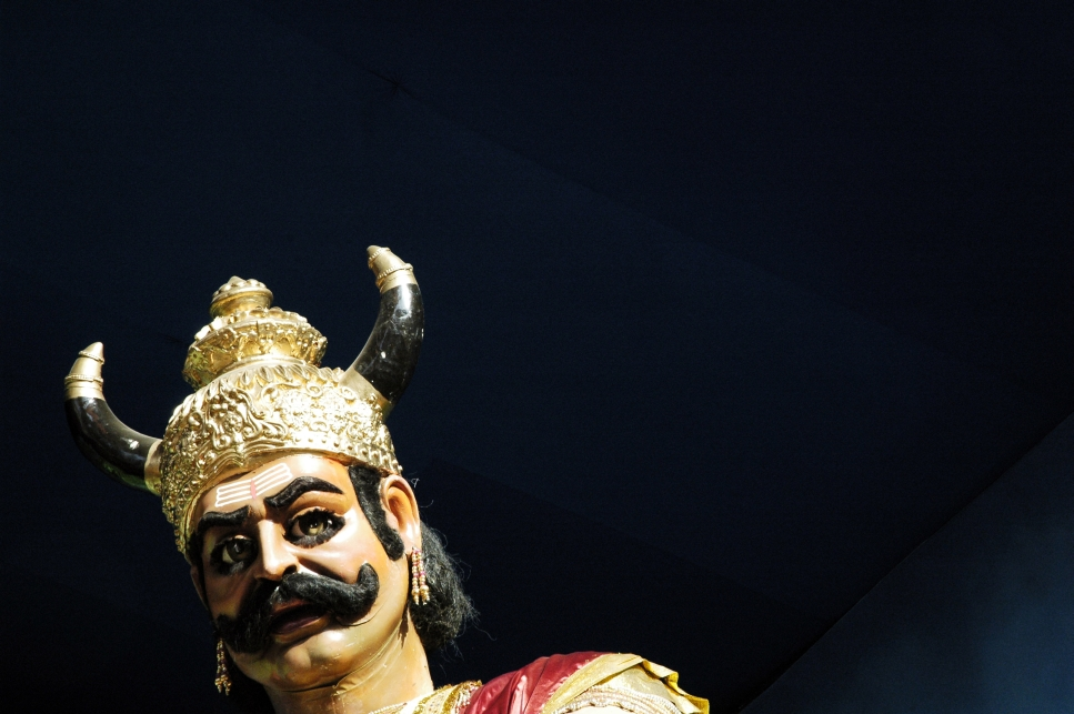 Head of a statue of Yama, the Hindu god of death.